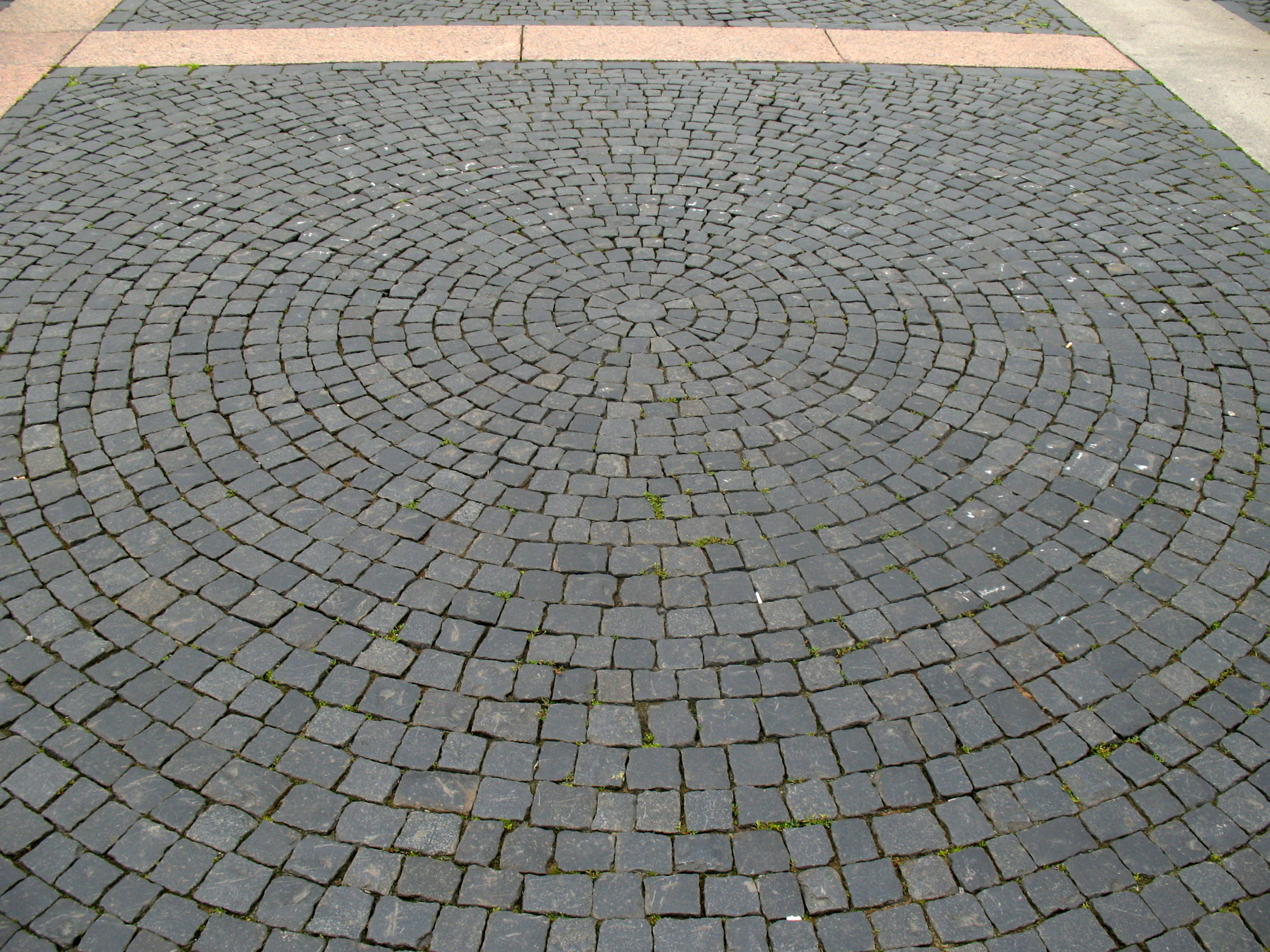 Setts on the Palace Square, St. Petersburg